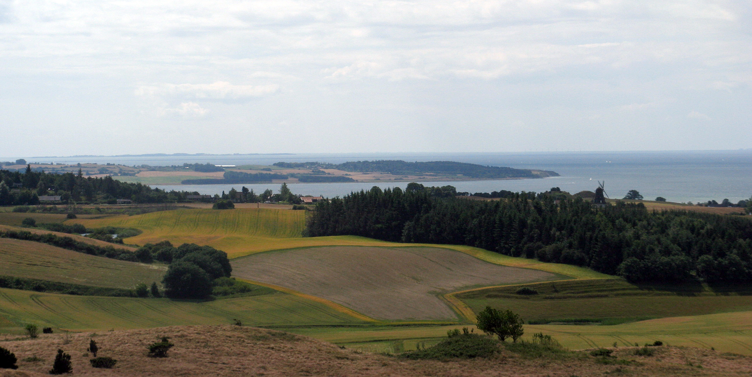 Helgenæs and Begtrup Vig taken from Trehøje at Mols Bjerge. The historic windmill on the right side is situated in Vistoft.